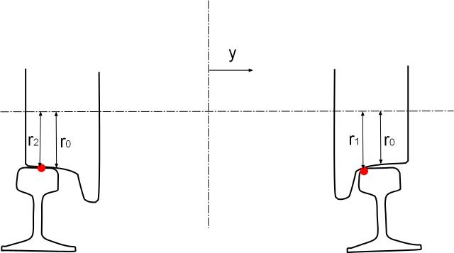 The figure shows schematically the difference radii of a wheel set shifted laterally from the neutral position